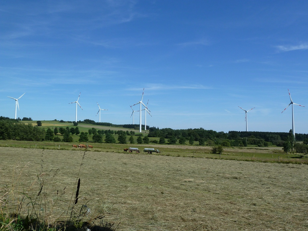 Windenergiepark Vogelsberg near Hartmannshain, View from the Southwest. The wind farm consists of the wind turbine types Tacke TW 1.5i, GE Wind Energy 1.5sl and Enercon E-82.